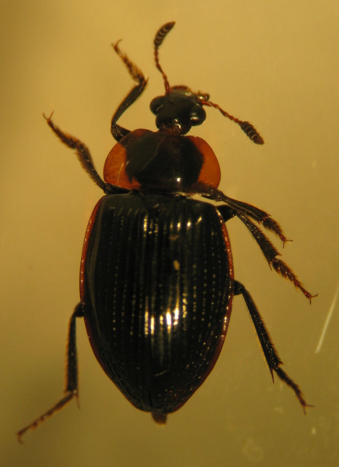 adult Zeanecrophilus sp.